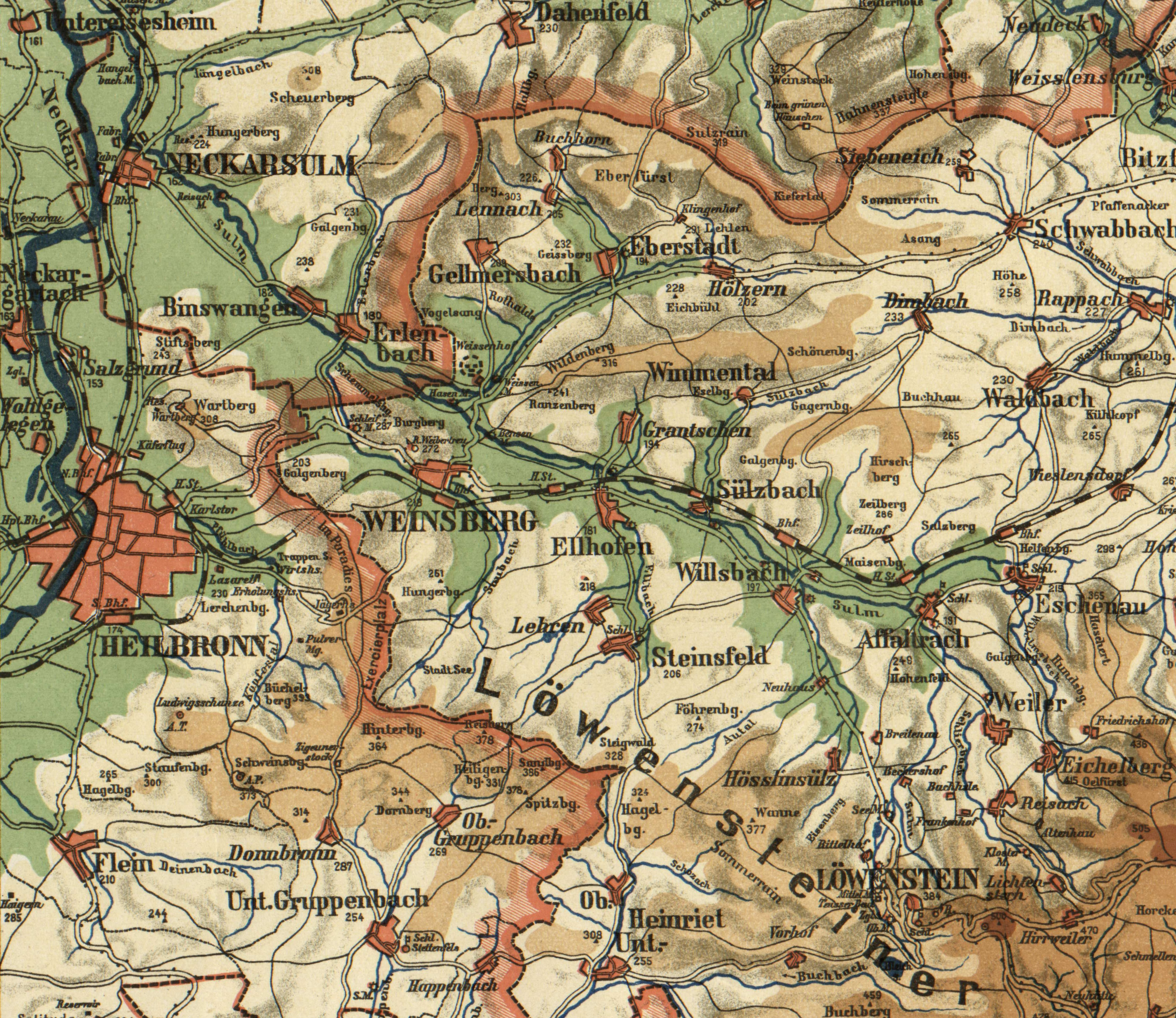 Map of the river Sulm and its tributaries ca. 1923. Detail of a map of the Oberamt Weinsberg (Weinsberg district), scale 1:100 000